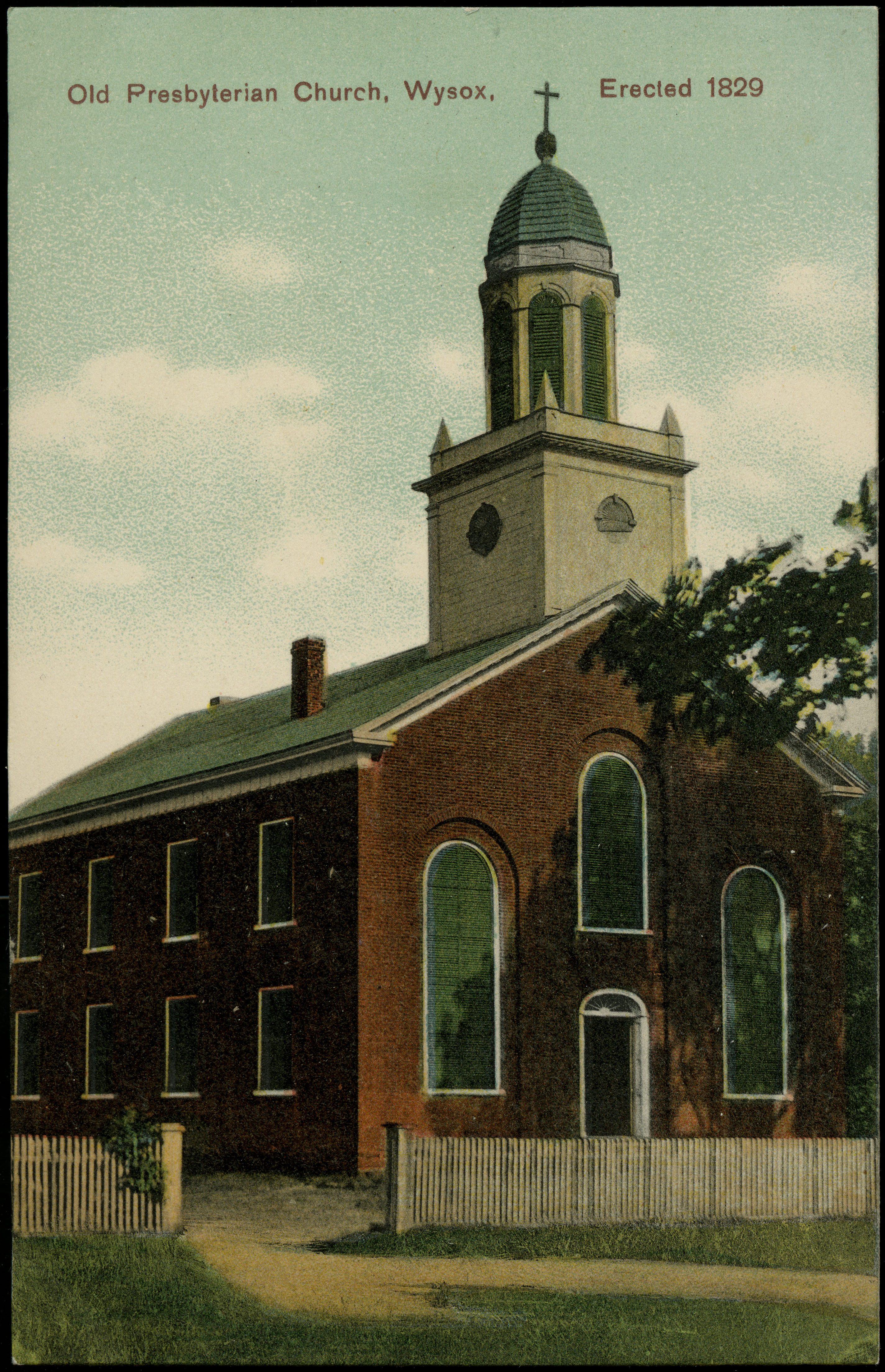 "Old Presbyterian Church" in Wysox, Pennsylvania from a pre-1923 postcard From RG 428, Postcard Collection, Presbyterian Historical Society, Philadelphia, Pennsylvania.